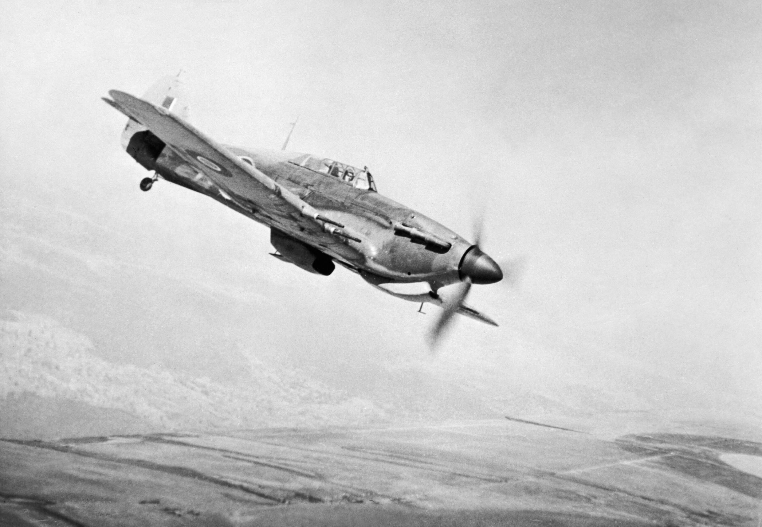 Hawker Hurricane Mk IIC of No. 166 Wing in flight from Chittagong in India, May 1943. A Hawker Hurricane Mark IIC of a squadron from No. 166 Wing RAF based at Chittagong, formates on the port quarter of the photographing aircraft.